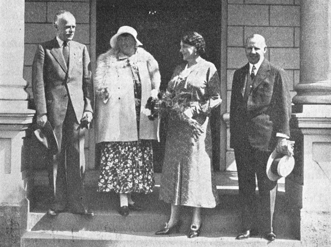 The German ambassador to Sweden, prince Victor av Wied (1877-1945; far left) and his wife Gisela von Solms-Wildenfels visiting the Swedish German consul in Helsingborg Ivar P:son Henning and his wife in 1935.